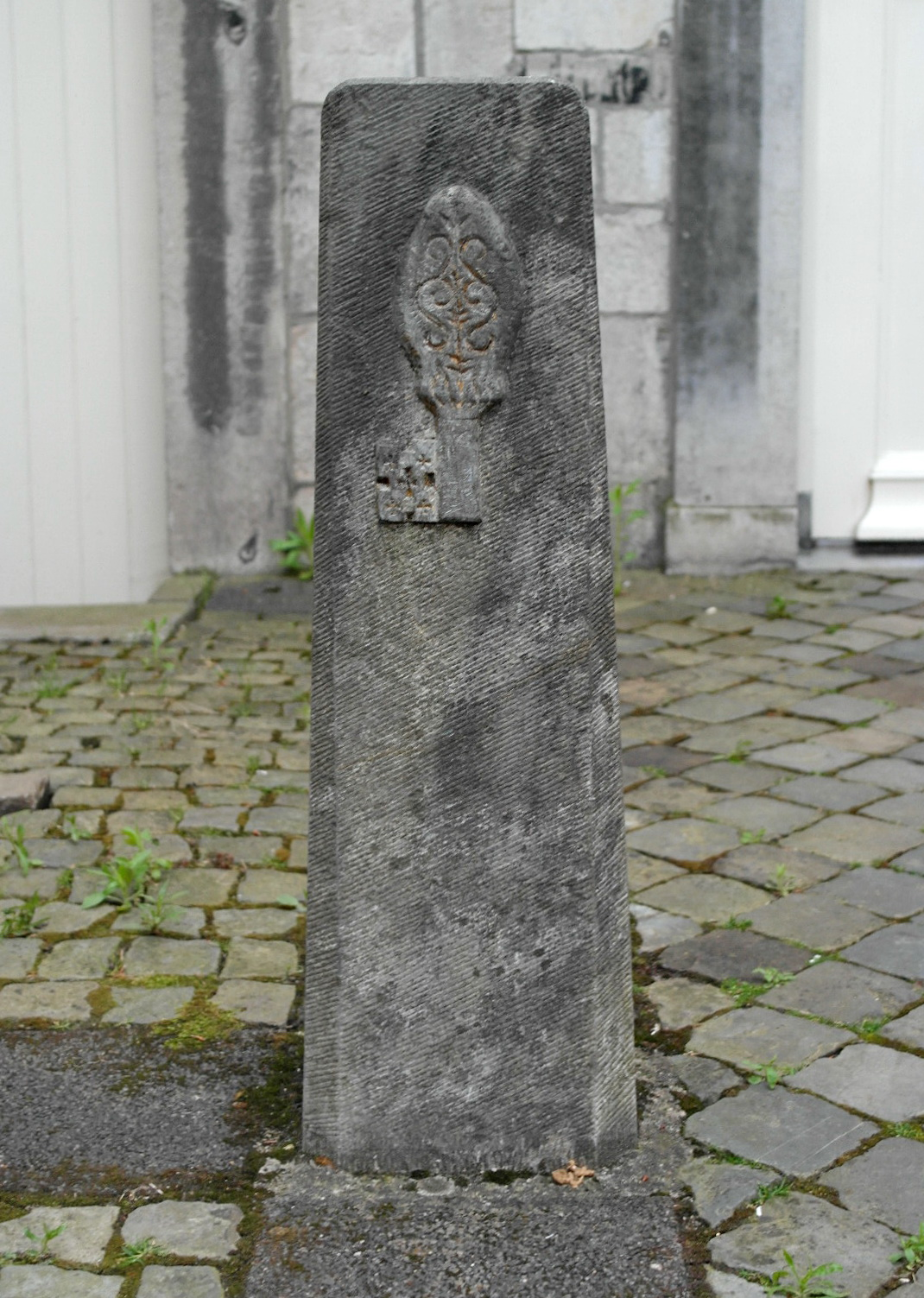 Border marker in the court yard of a former canon's house at Sint Servaasklooster 32 in Maastricht, the Netherlands. The stone (perhaps not an original) marked the outer borders of the claustrale singel, the area in the city of Maastricht which up till 1797 fell under the jurisdiction of the chapter of Saint Servatius. The key of Saint Servatius depicted on the marker was the symbol of the chapter, also appearing on their coat of arms. The Jerusalem cross on the other side is a detail of the key.